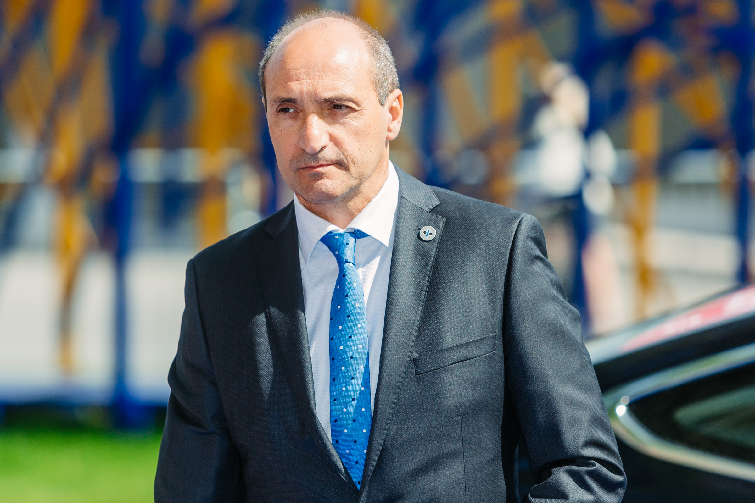 Chris Fearne, Deputy Prime Minister, Ministry for Health Minister, Malta